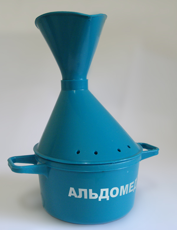 Steam Inhaler